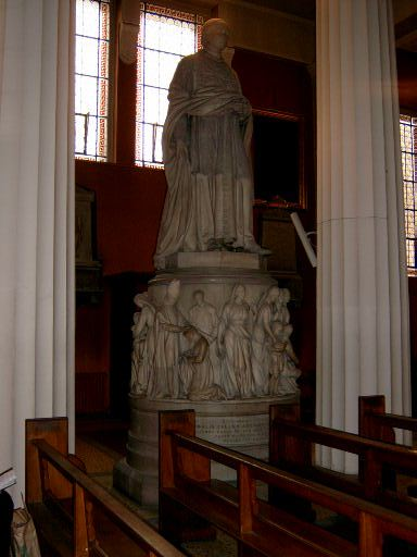 St Mary's Pro-Cathedral monument to Paul Cullen (cardinal) in Dublin. My image. No c/r